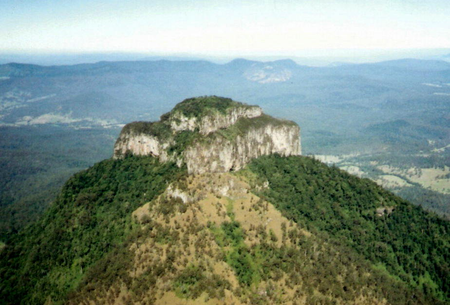 Mount Lindesay, Queensland, Australia from a light plane